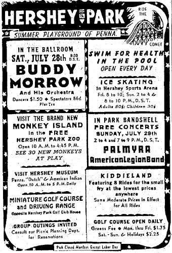 An ad for Hershey Park from July 27, 1956, in the Lebanon Daily News.